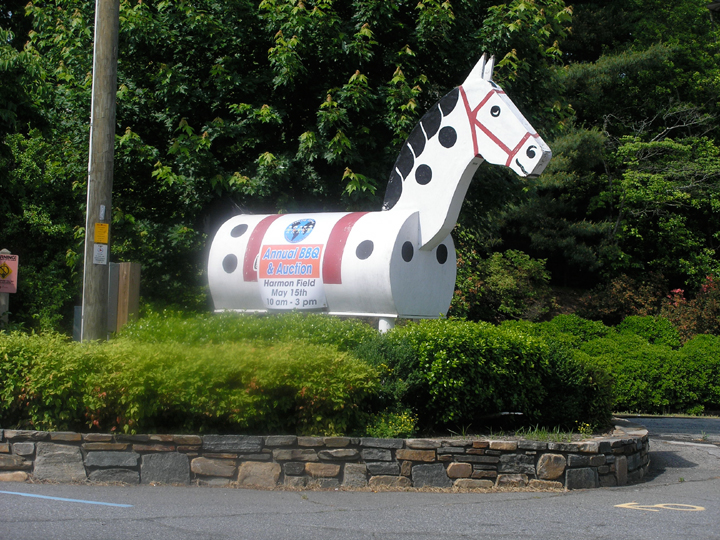 Morris the Town Symbol, Tyron, NC